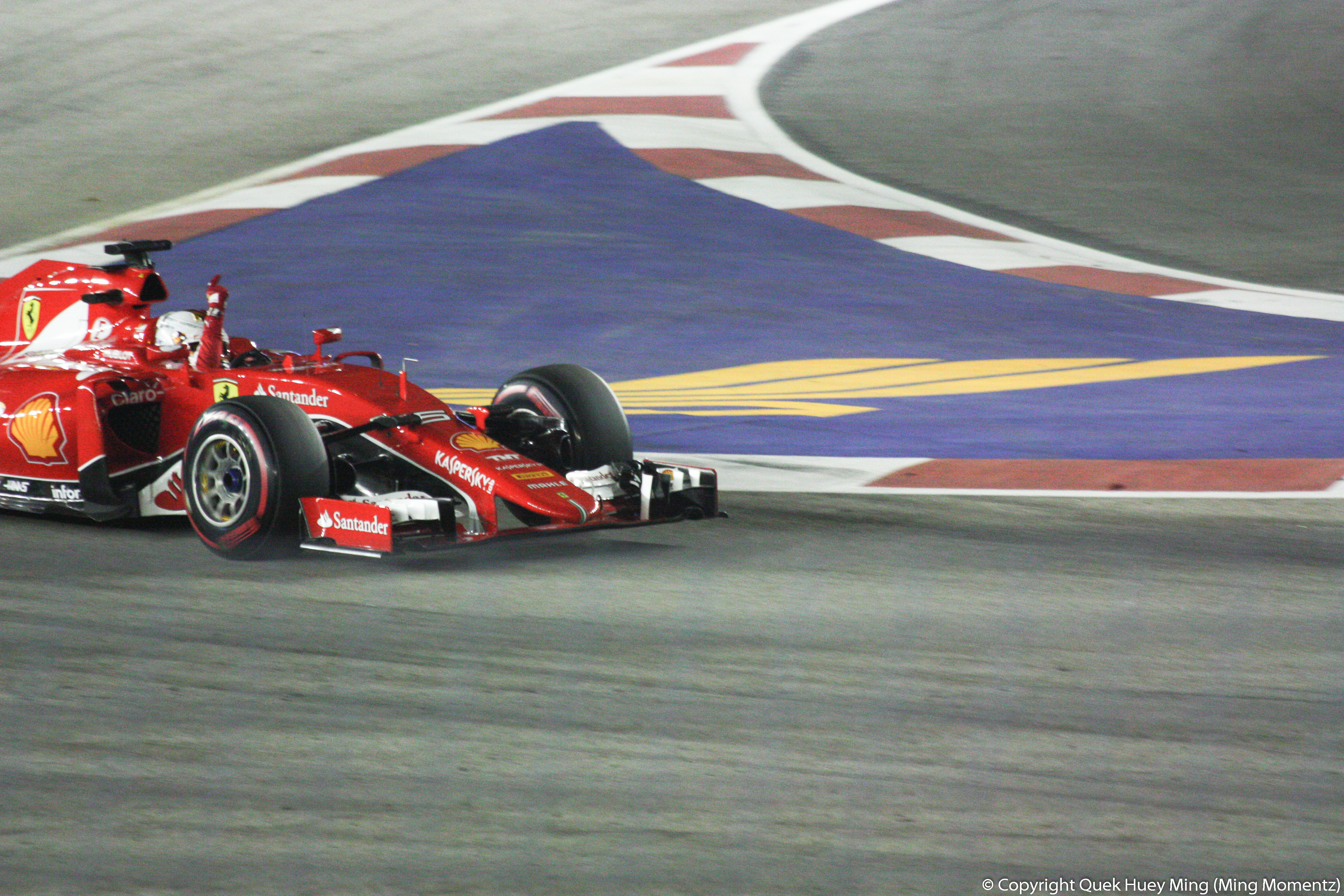 Sebastian Vettel at the 2015 Singapore Grand Prix